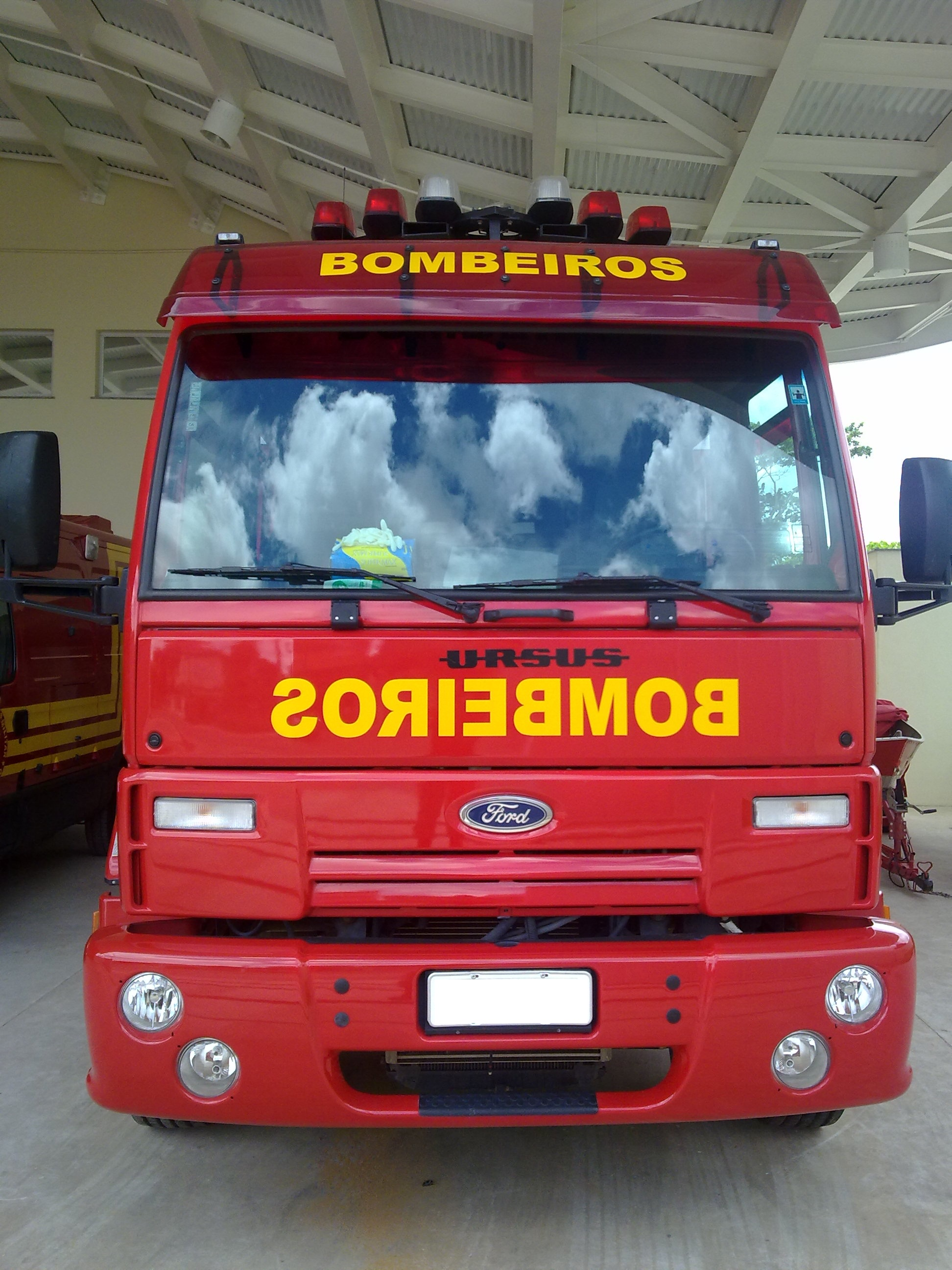 Rescue car. Ford Cargo fire engine.